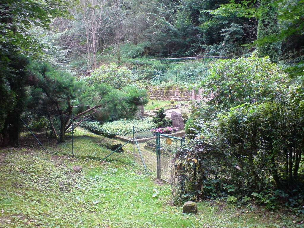 Mennonite Cemetery in Diemerstein, belonging to Frankenstein, Rhineland-Palatinate, Germany